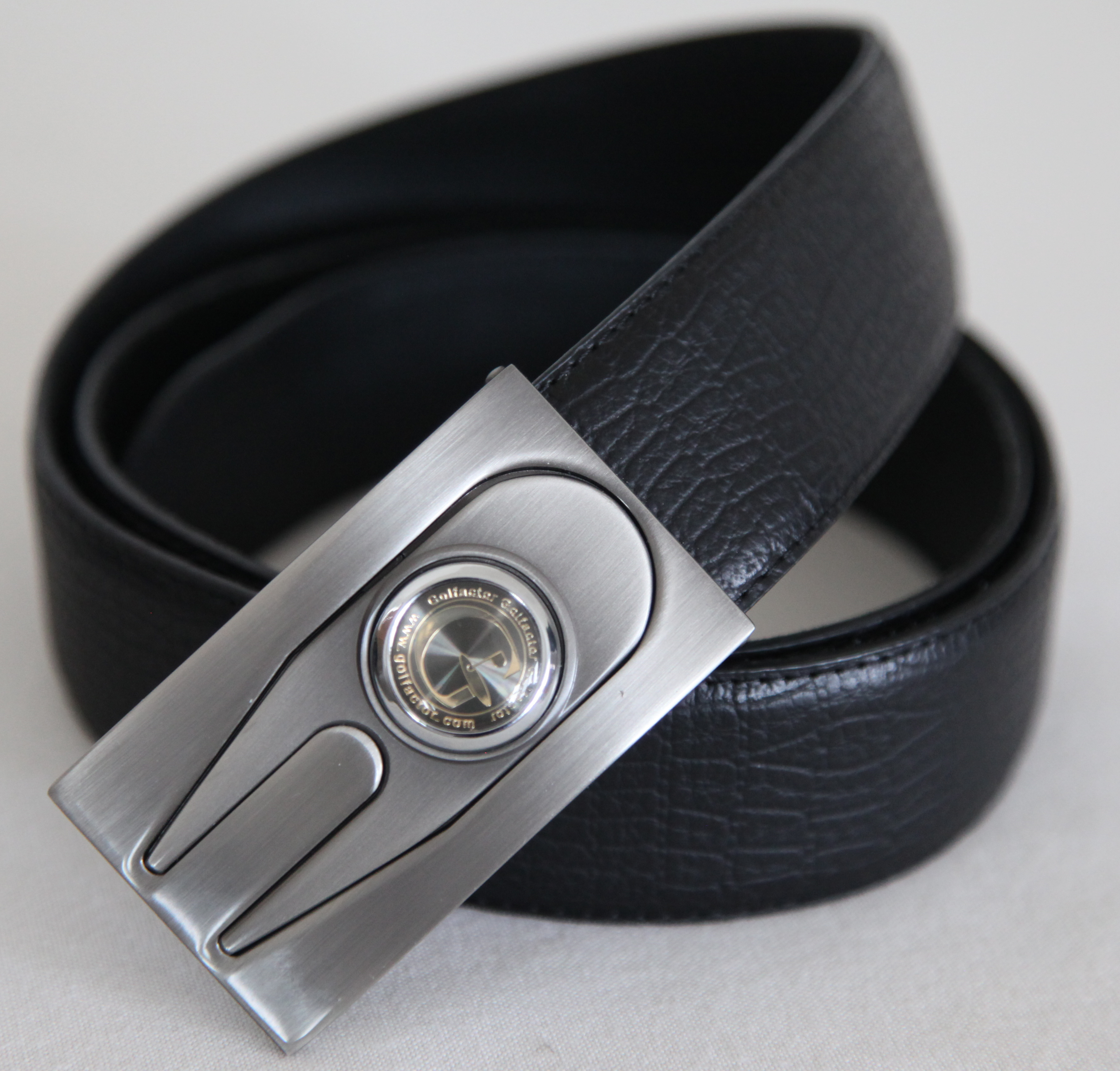 Golf Belt Buckle, Golfactor